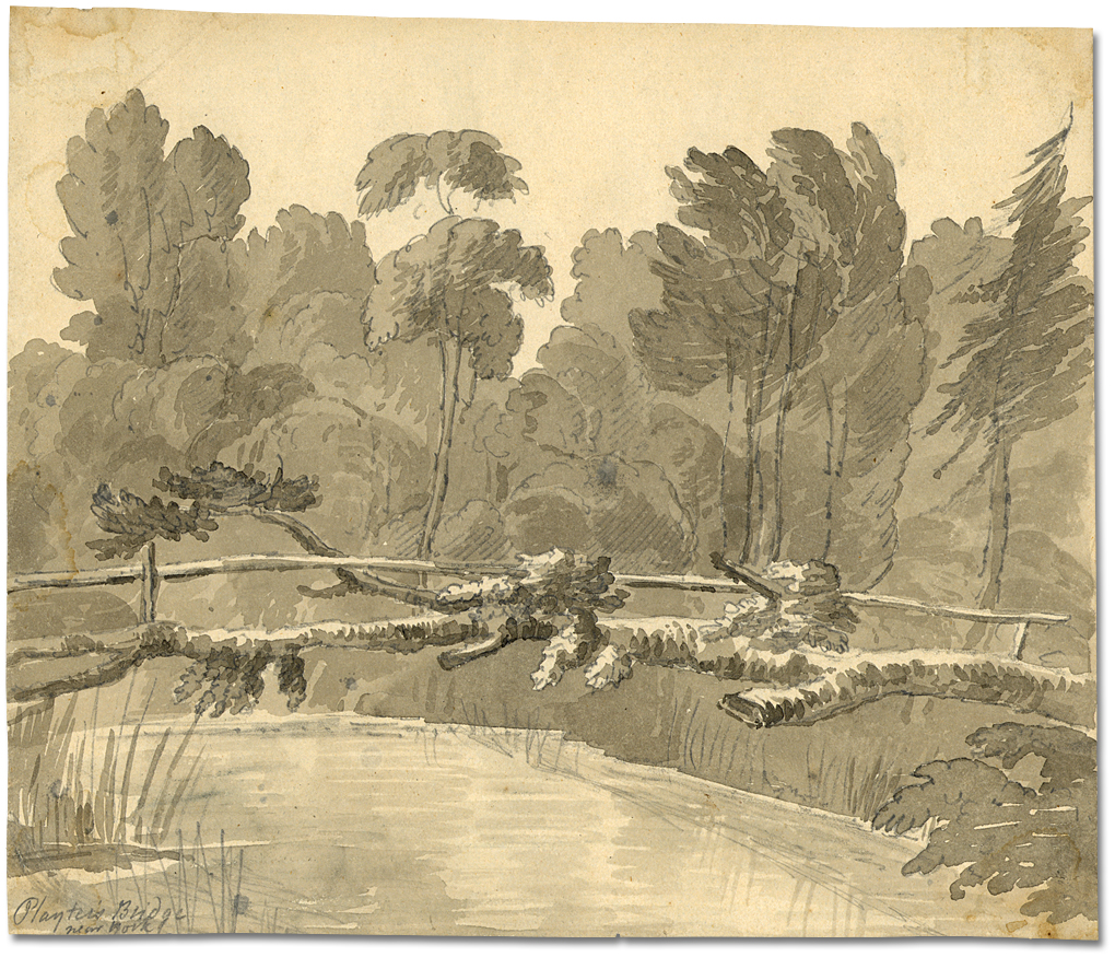 Playter's bridge near York